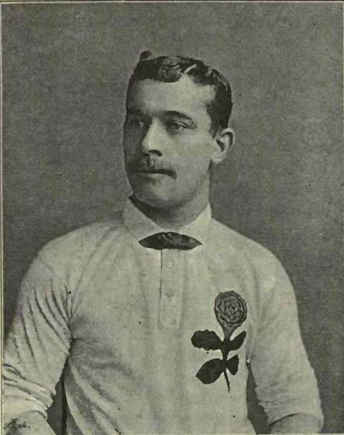 A picture of Richard Lockwood, former captain of the England rugby union team.